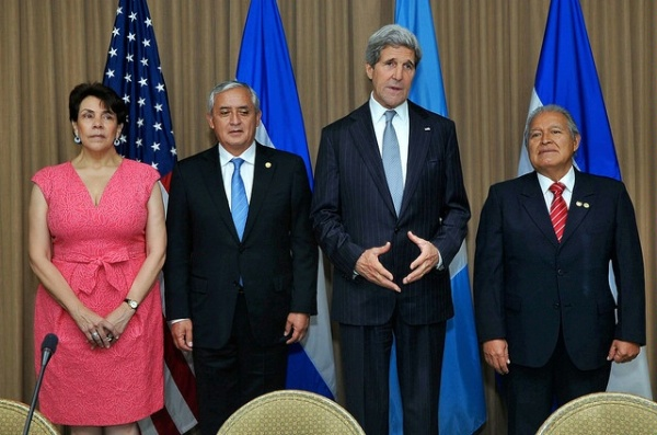 From left to right: Mireya Aguero Trejo de Corrales, Otto Fernando Perez Molina, John Kerry and Salvador Sanchez Ceren